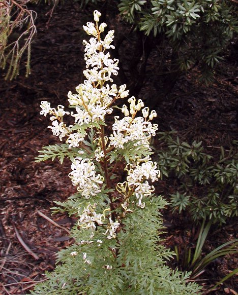 Lomatia silaifolia, Sydney -photo: Cas Liber